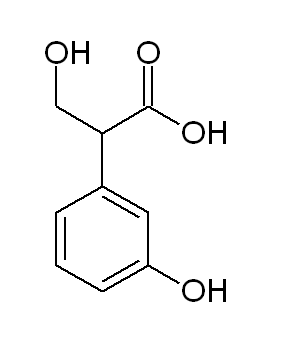 Chemical structure of m-hydroxyphenylhydracrylic acid